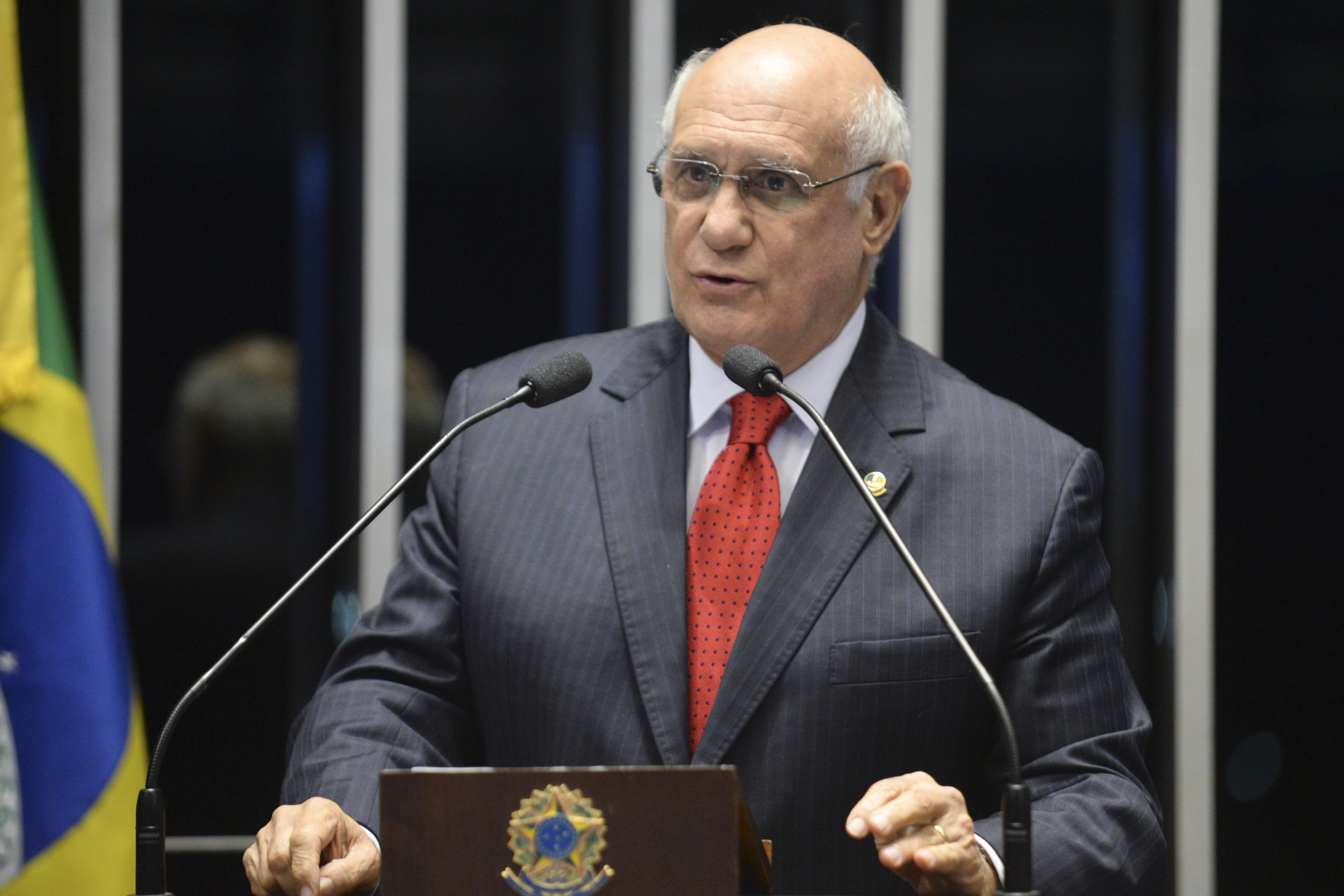 Plenário do Senado Federal durante sessão deliberativa ordinária.Em discurso, senador Lasier Martins (PDT-RS).Foto: Jefferson Rudy/Agência Senado